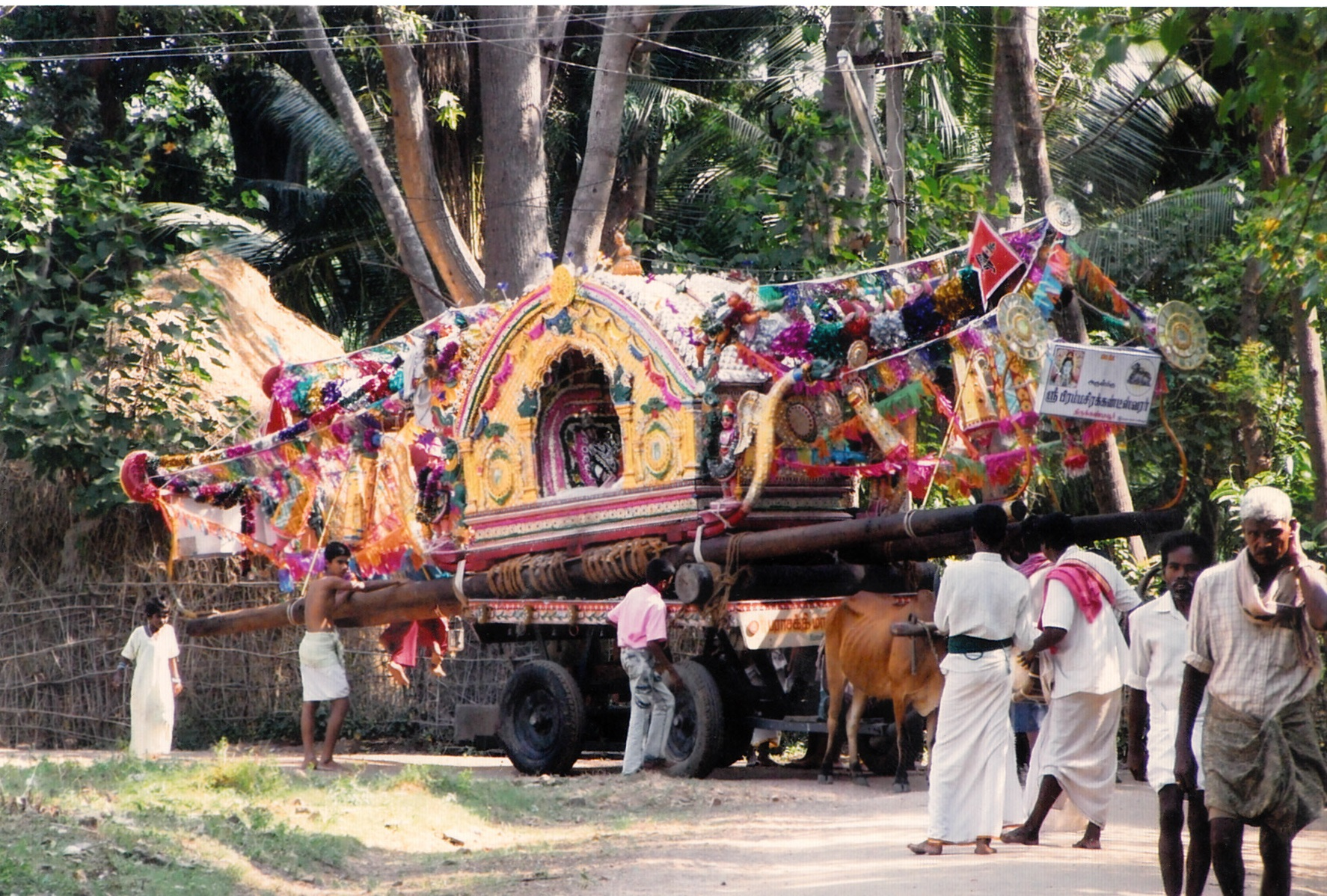 திருக்கண்டியூர் பல்லக்கு, திருவையாறு சப்தஸ்தான விழா, ஏப்ரல் 2008